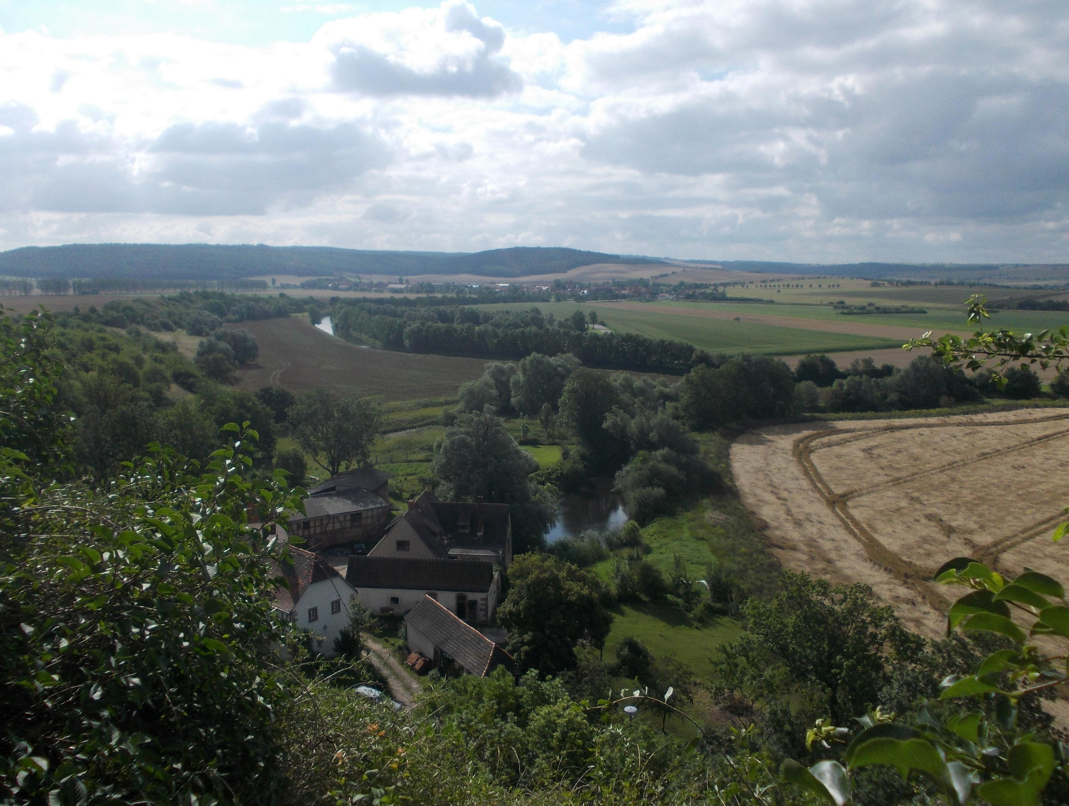 View of the Unstrut valley from Wendelstein Castle (Kaiserpfalz, district: Burgenlandkreis, Saxony-Anhalt)